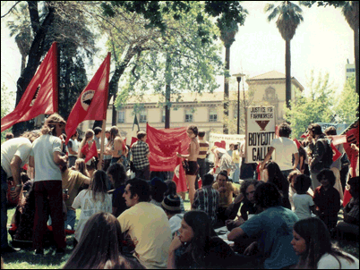 Branch: King Library. Date: 5/28/2008. Description: Cultural Heritage Center historical image.